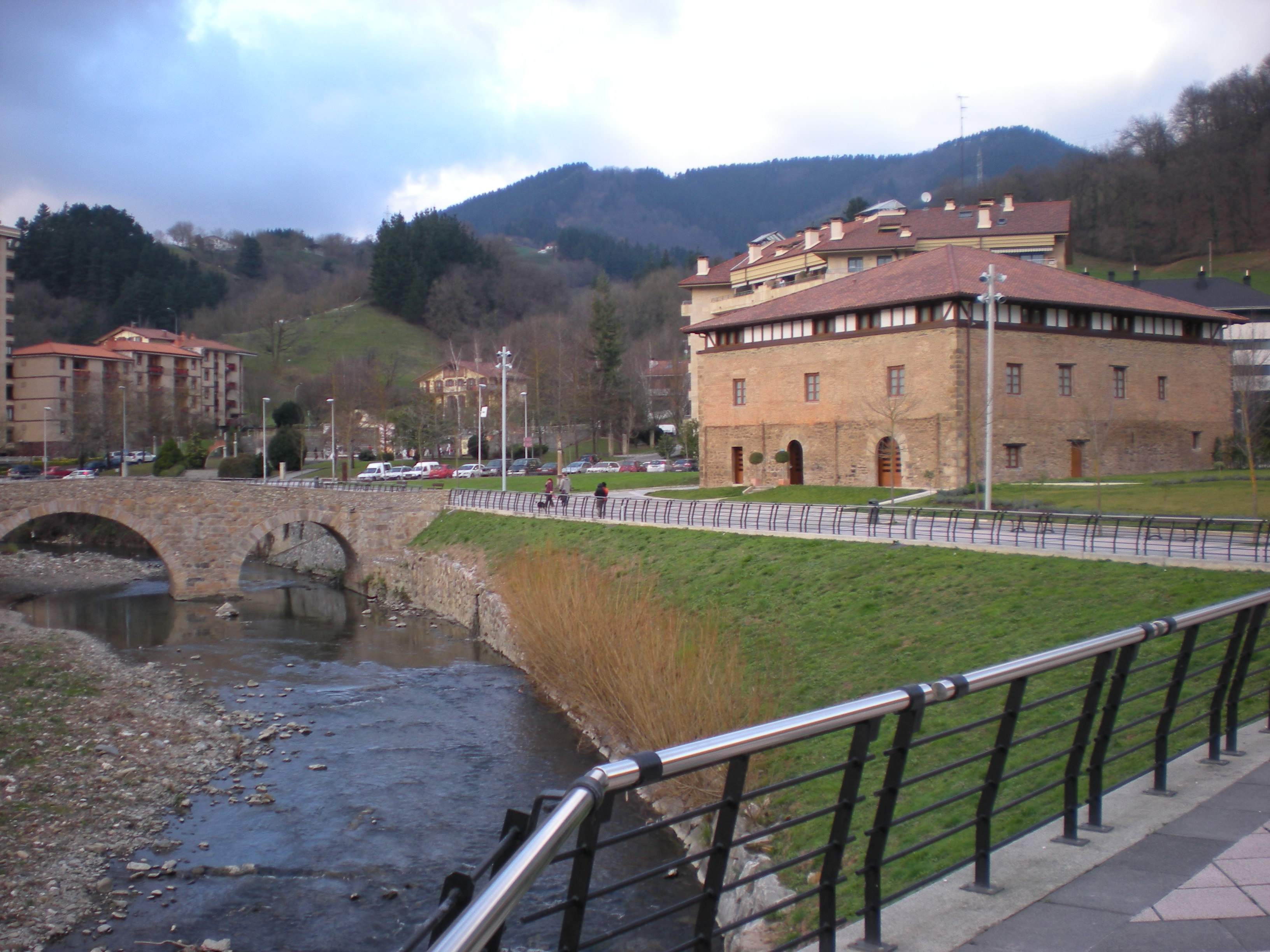 Dolarea, Igartza historical monument on the left side of river Oria